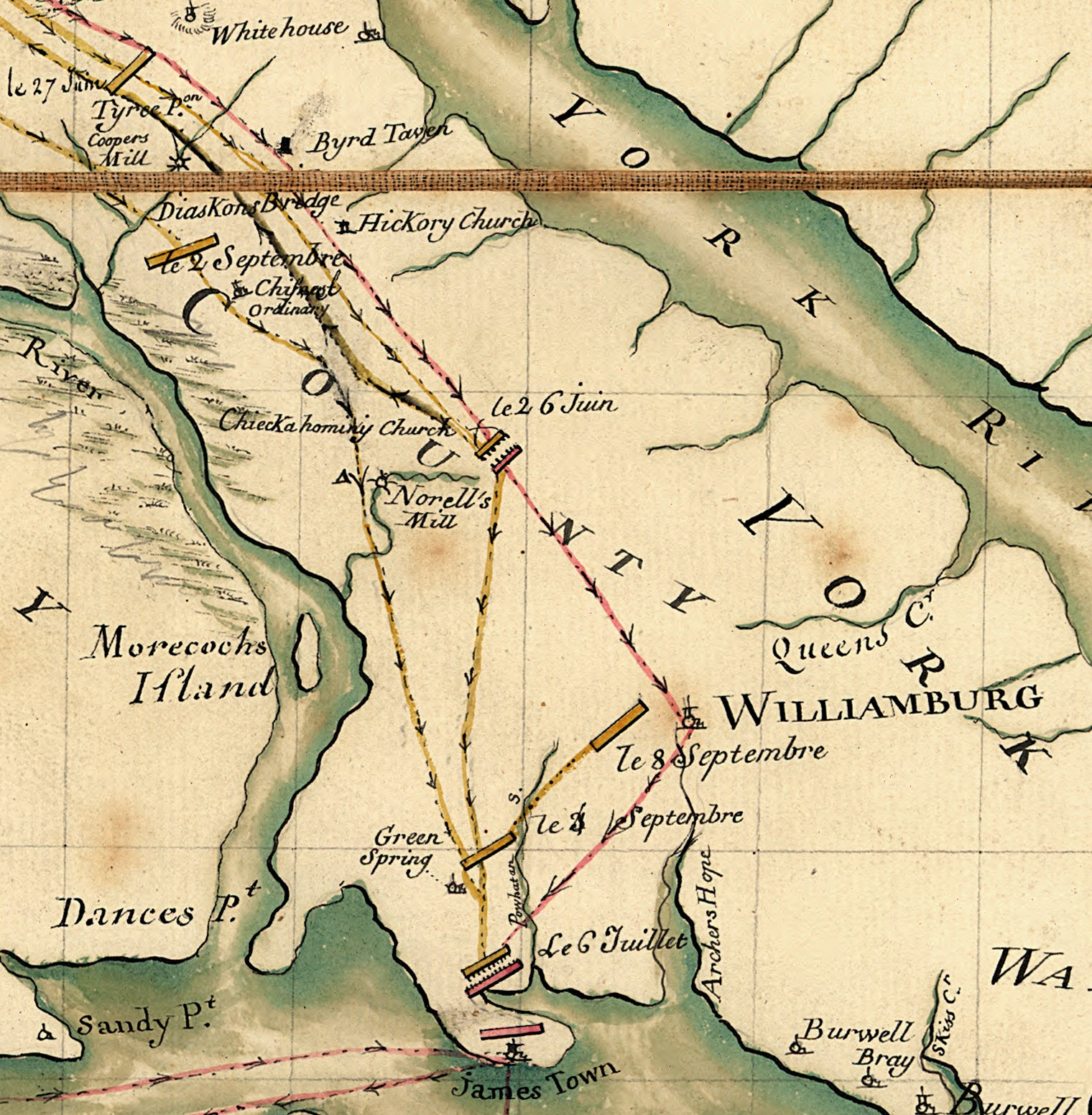 Detail of a military prepared by an assistant to the Marquis de Lafayette in 1781. The full map shows the movements of Lafayette and Cornwallis in Virginia during the 1781 Yorktown campaign. This detail shows a portion of the Virginia Peninsula running west and north from Williamsburg; this area was the scene of two battles between the two forces: Battle of Spencer's Ordinary (location labeled "le 26 Juin") and Battle of Green Spring (location labeled "le 6 Juille").